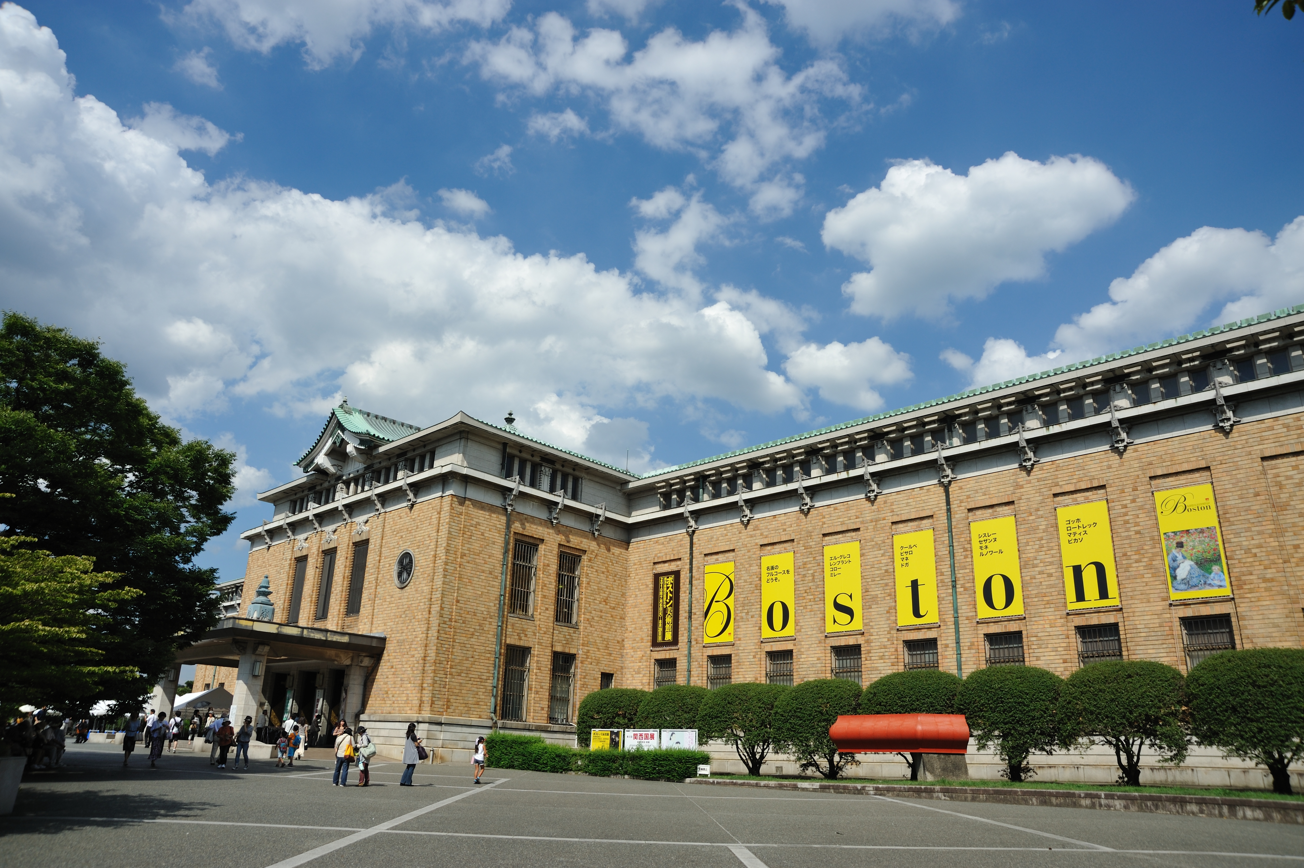 Exhibision was Masterpieces from the Museum of Fine Arts, Boston in summer, 2010. 京都市美術館 ボストン美術館展 京都、2010年